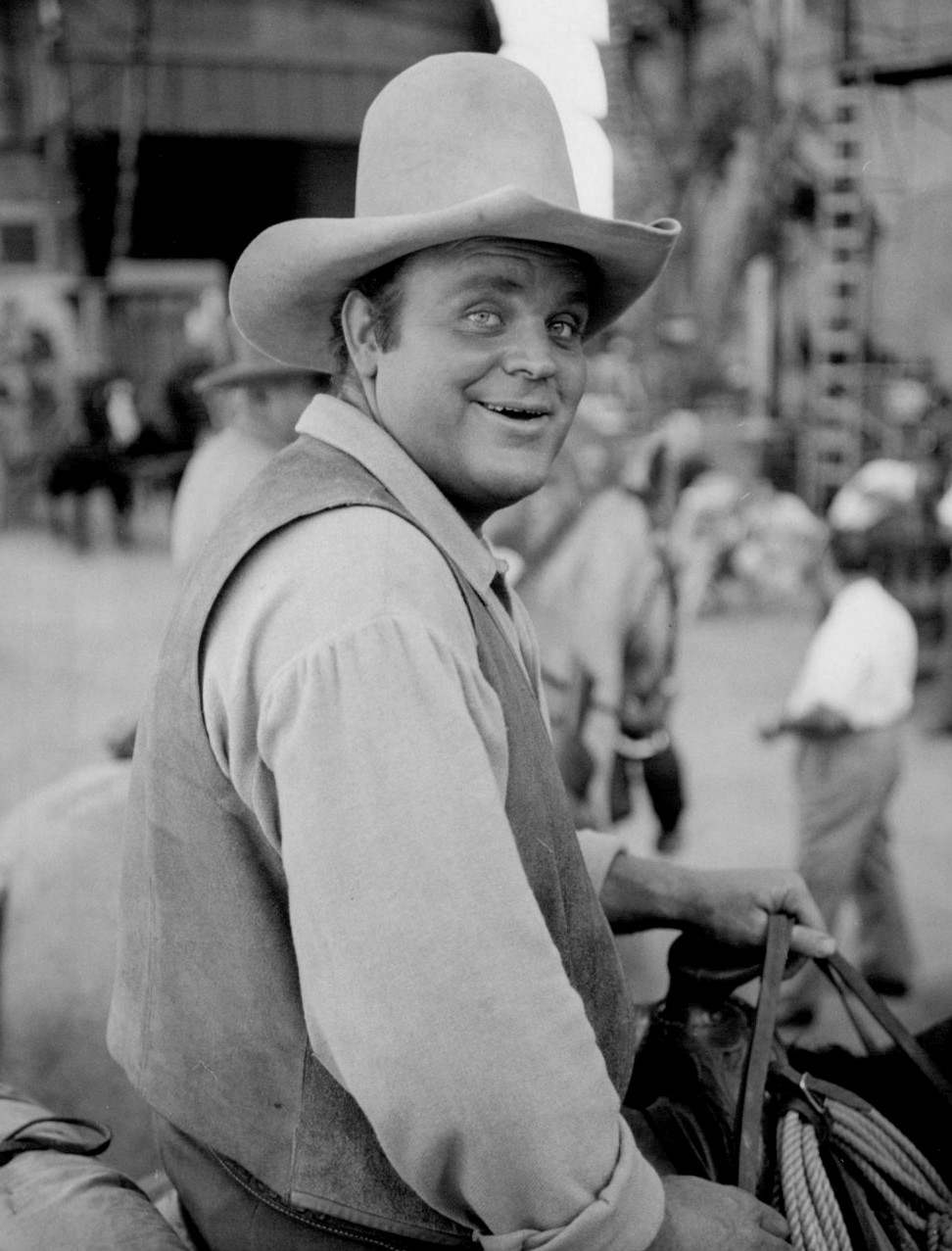 Photo of Dan Blocker as Hoss Cartwright from the television program Bonanza.